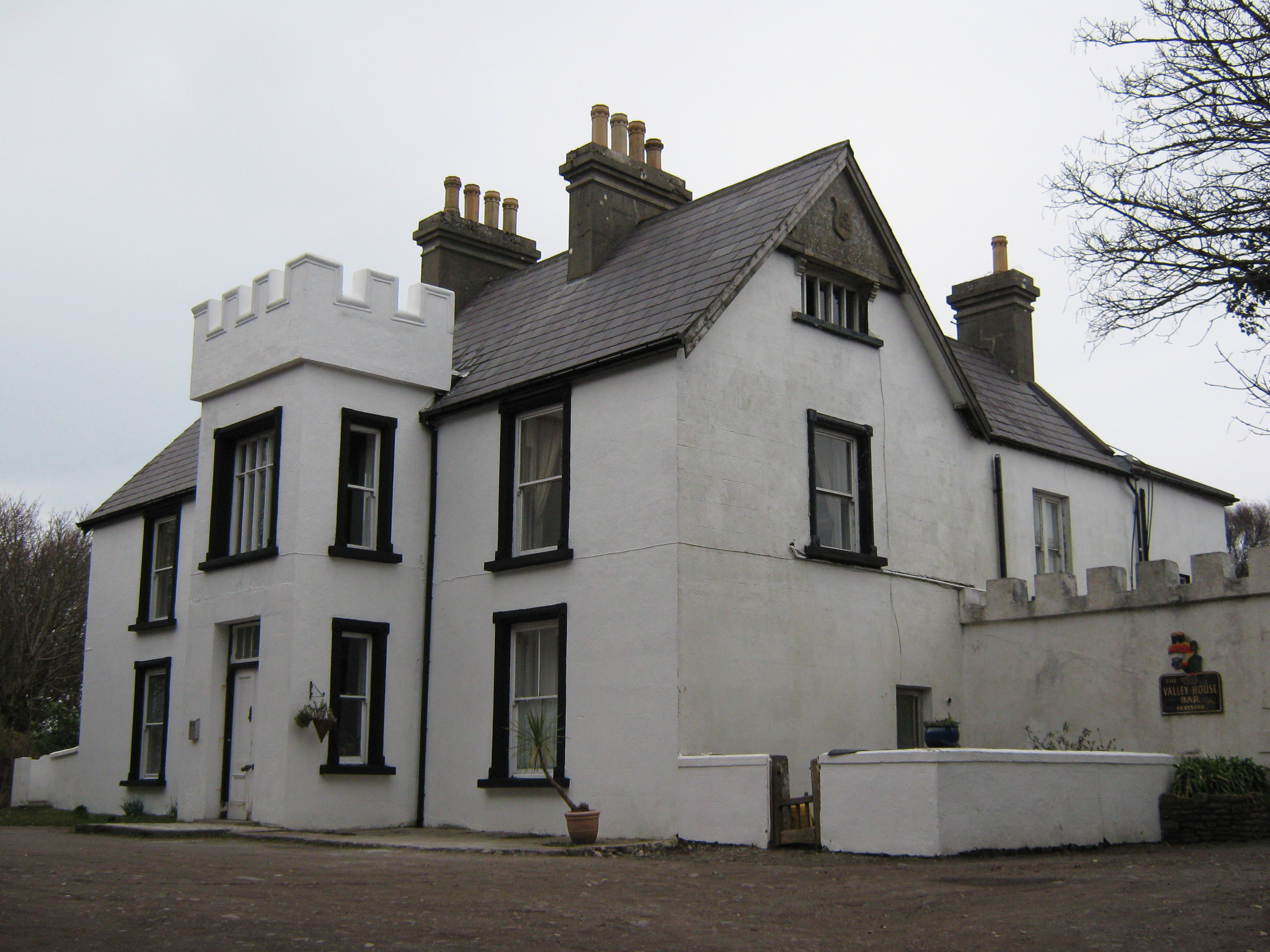 A Picture of the Valley House, Tóin an tSeanbhaile, Achill, where Mrs. Agnes McDonnell lived in the late 19th century. Currently a hostel and bar.